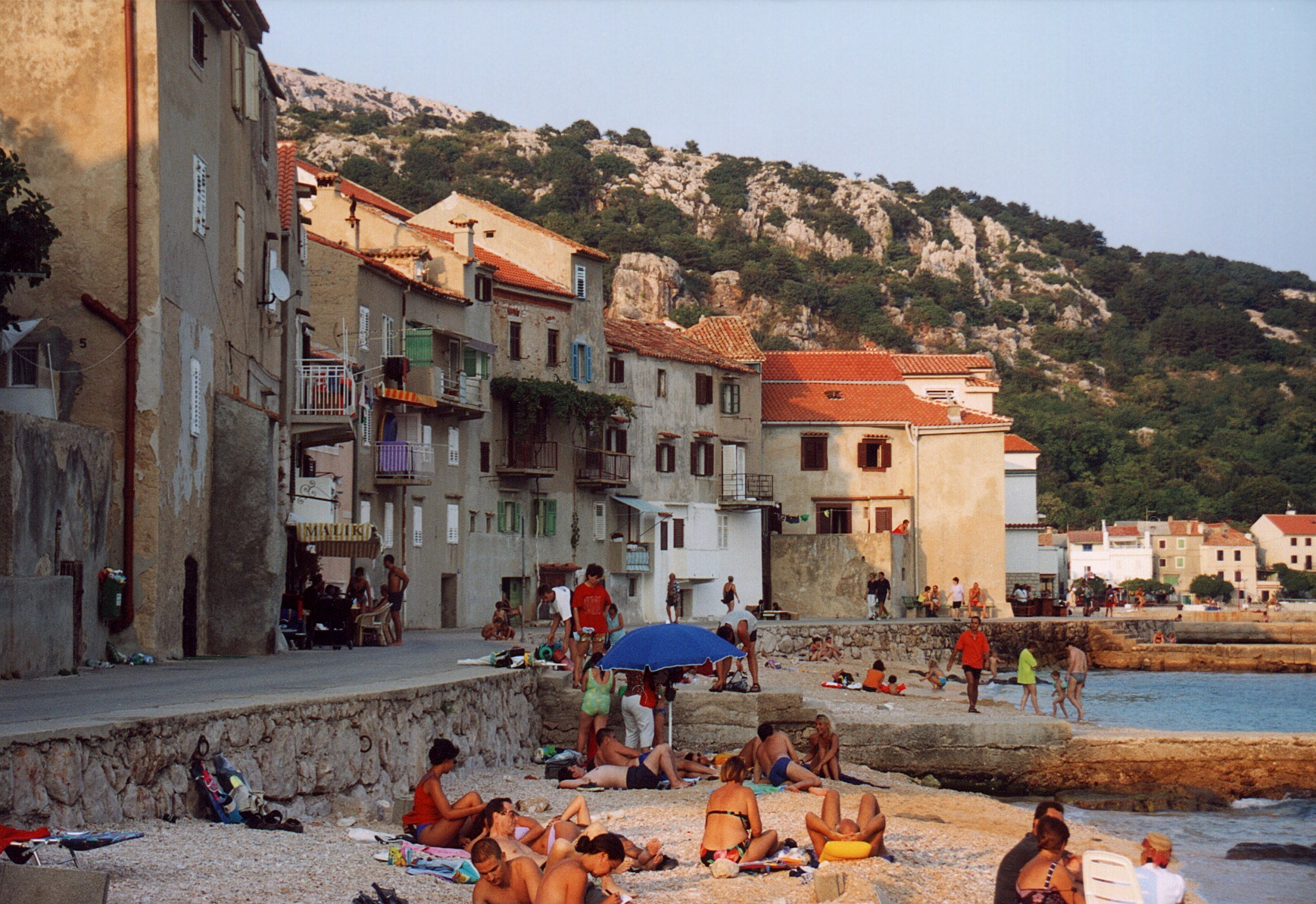 coast in Baška in Croatia at the isle Krk in the right corner of picture is a man called Hrvoje Peh, the man behind the "Hrvatski sajam nogometa"